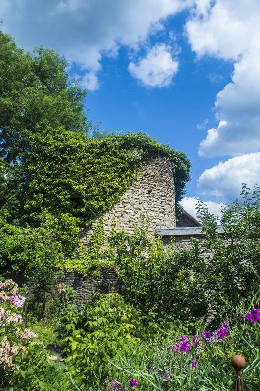 Ruins of a dyehouse, Willow Vale, Frome; listed building; example of industrial archaeology